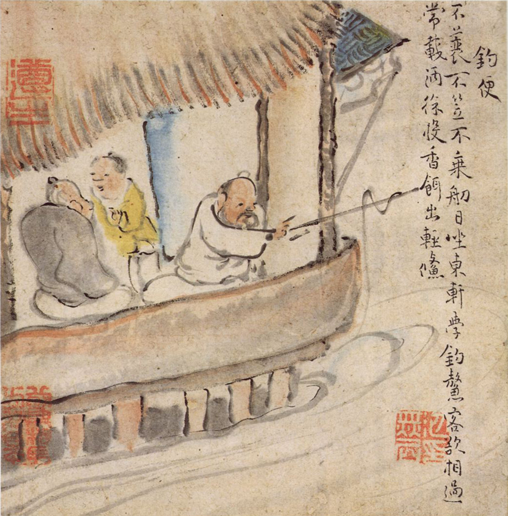 The Chobenzu is a part of Juben-Jugijo and a Japanese national treasure by Ike Taiga. 釣便図（国宝 十便十宜帖のひとつ）池大雅筆